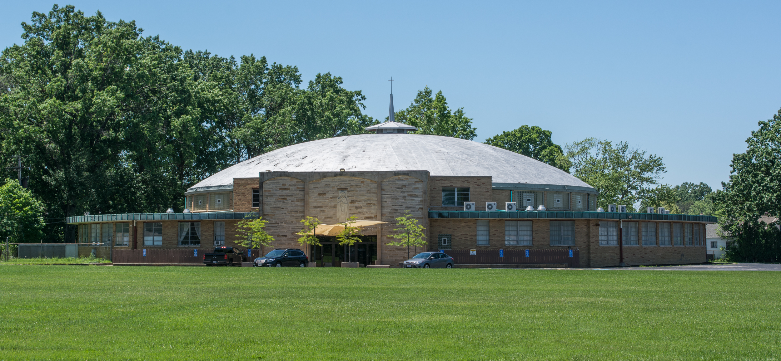 Astrodome - St Josaphat Ukrainian Catholic Cathedral